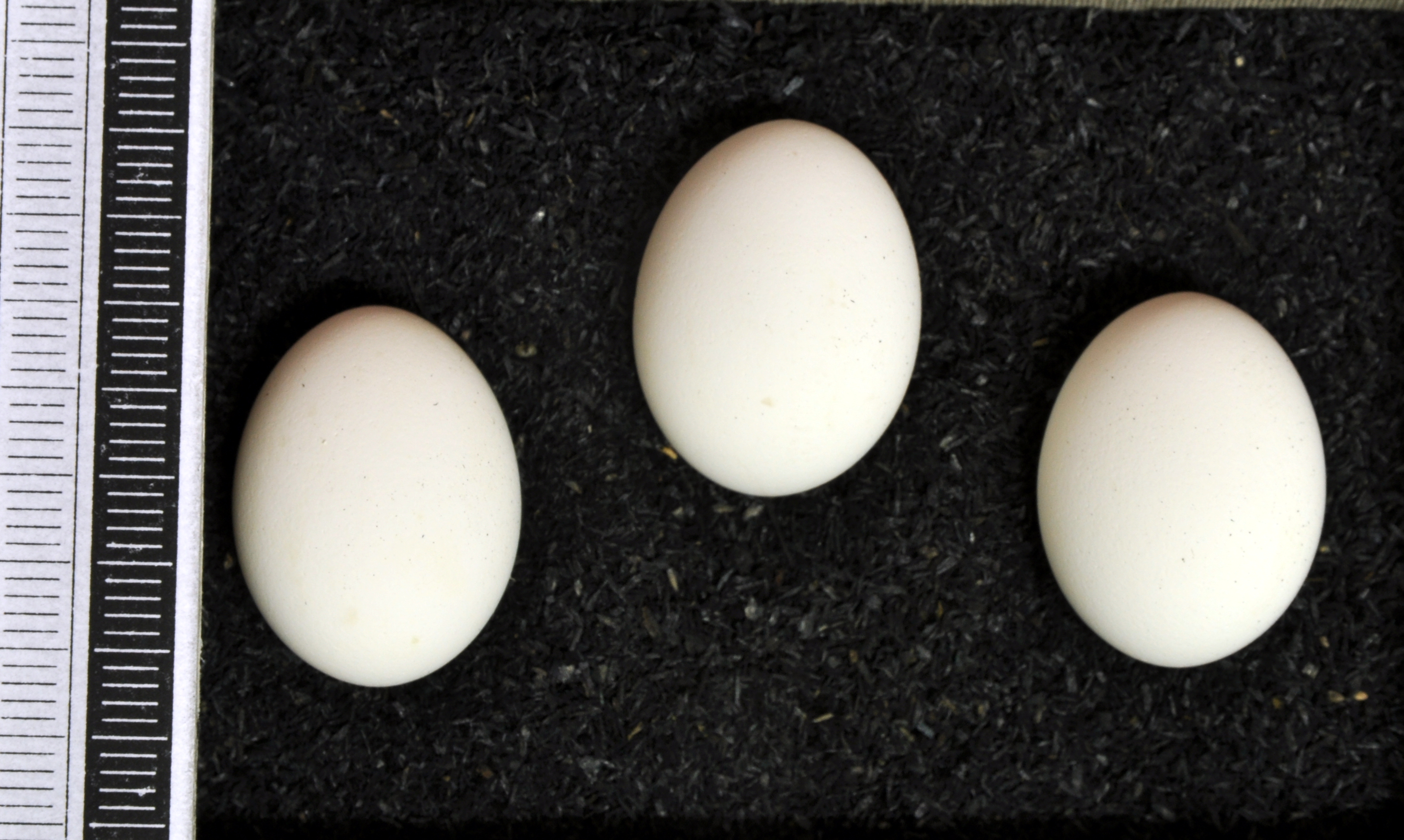 Rosy-faced lovebird Agapornis roseicollis , egg, Coll. Museum Wiesbaden